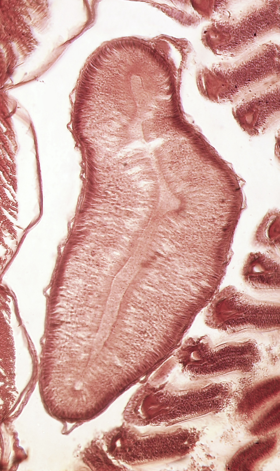 Lancelet's mid-gut diverticulum